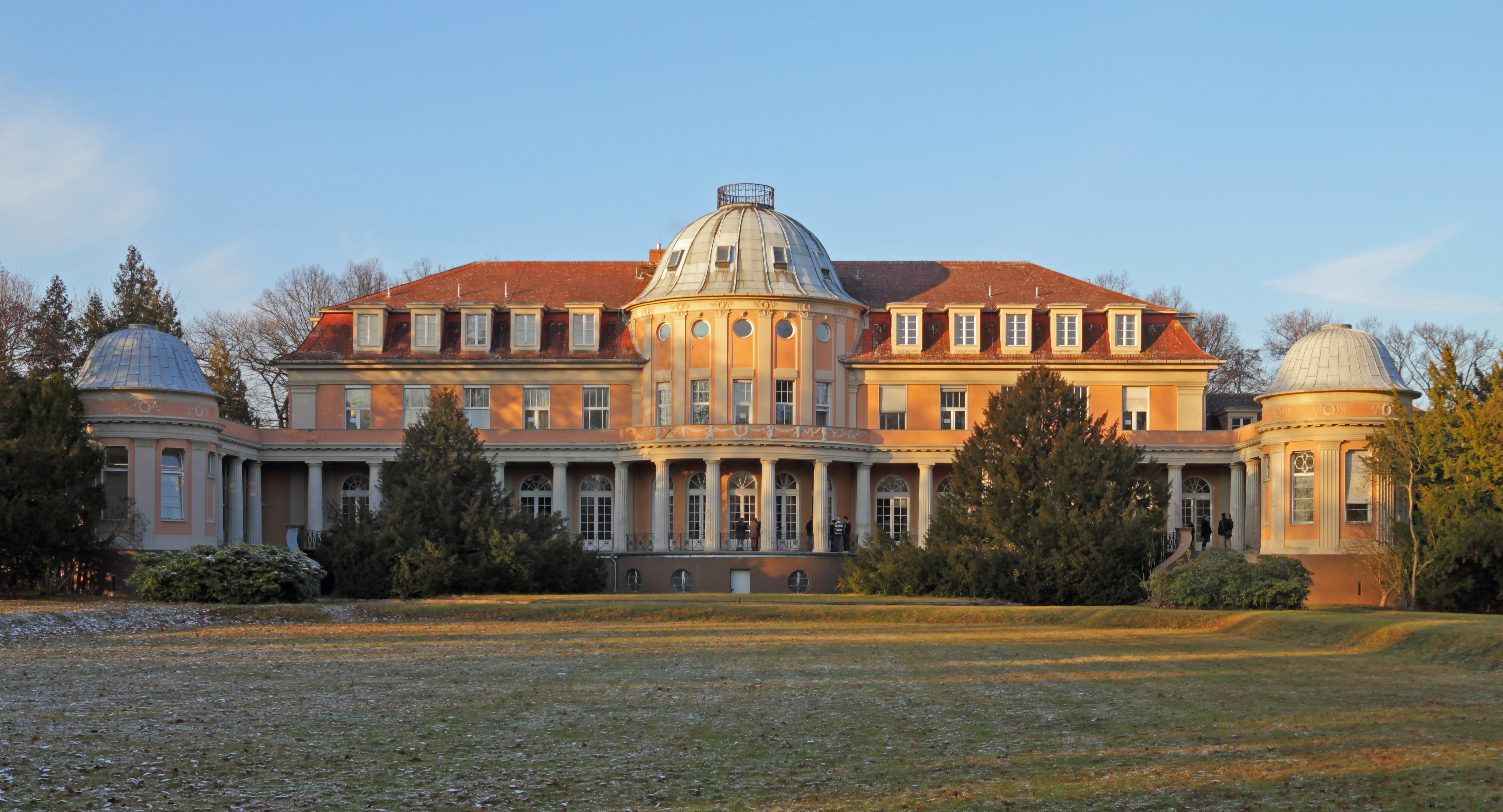 Berlin-Lankwitz former Siemens mansion